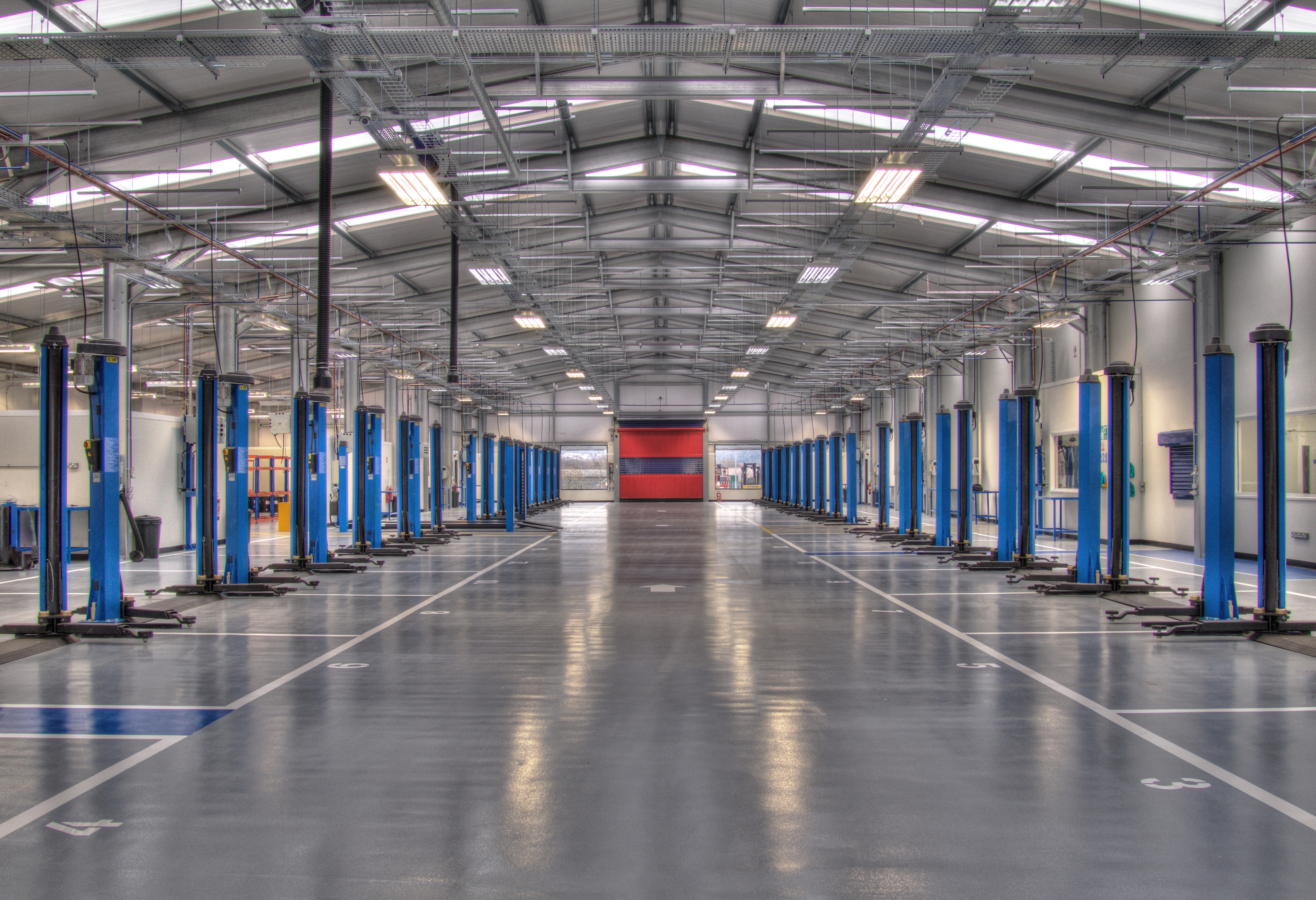 The Largest Workshop in Wales